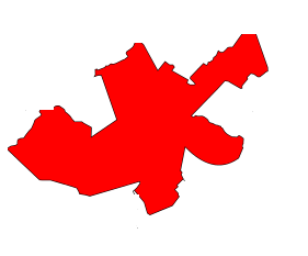 New Jersey's 25th Legislative District-2011 Apportionment